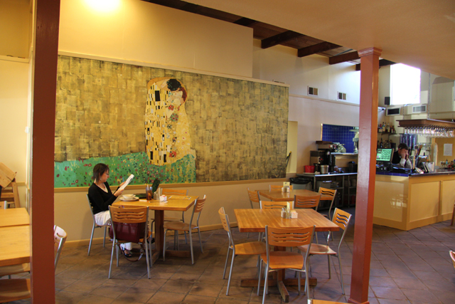 Reformatting of Gustav Klimt's The Kiss at Fresco's Cafe in New Orleans from 2004 is still on the wall!